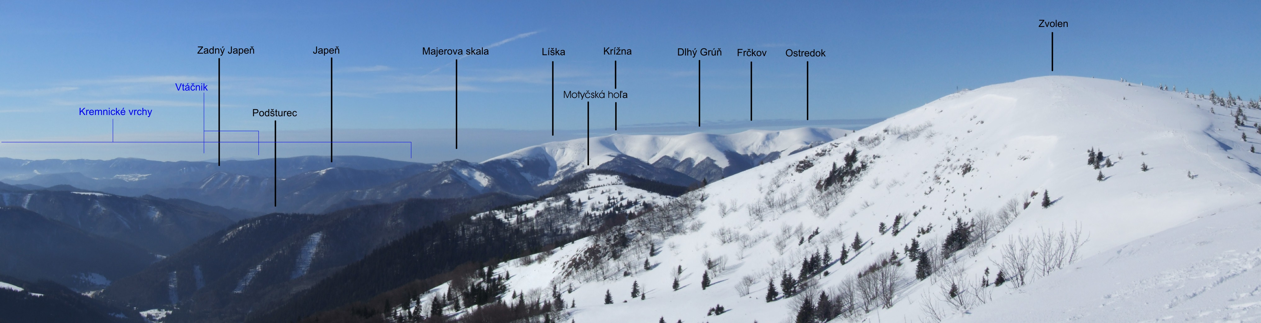 Panorama of Veľká Fatra from Park Snow Donovaly, Slovakia Ślůnski: Wjelgo Fatra, Słowacyjo